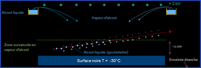 How a diffusion cloud chamber work